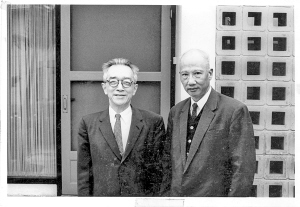 Hu Shih and his secretary Hu Song-ping